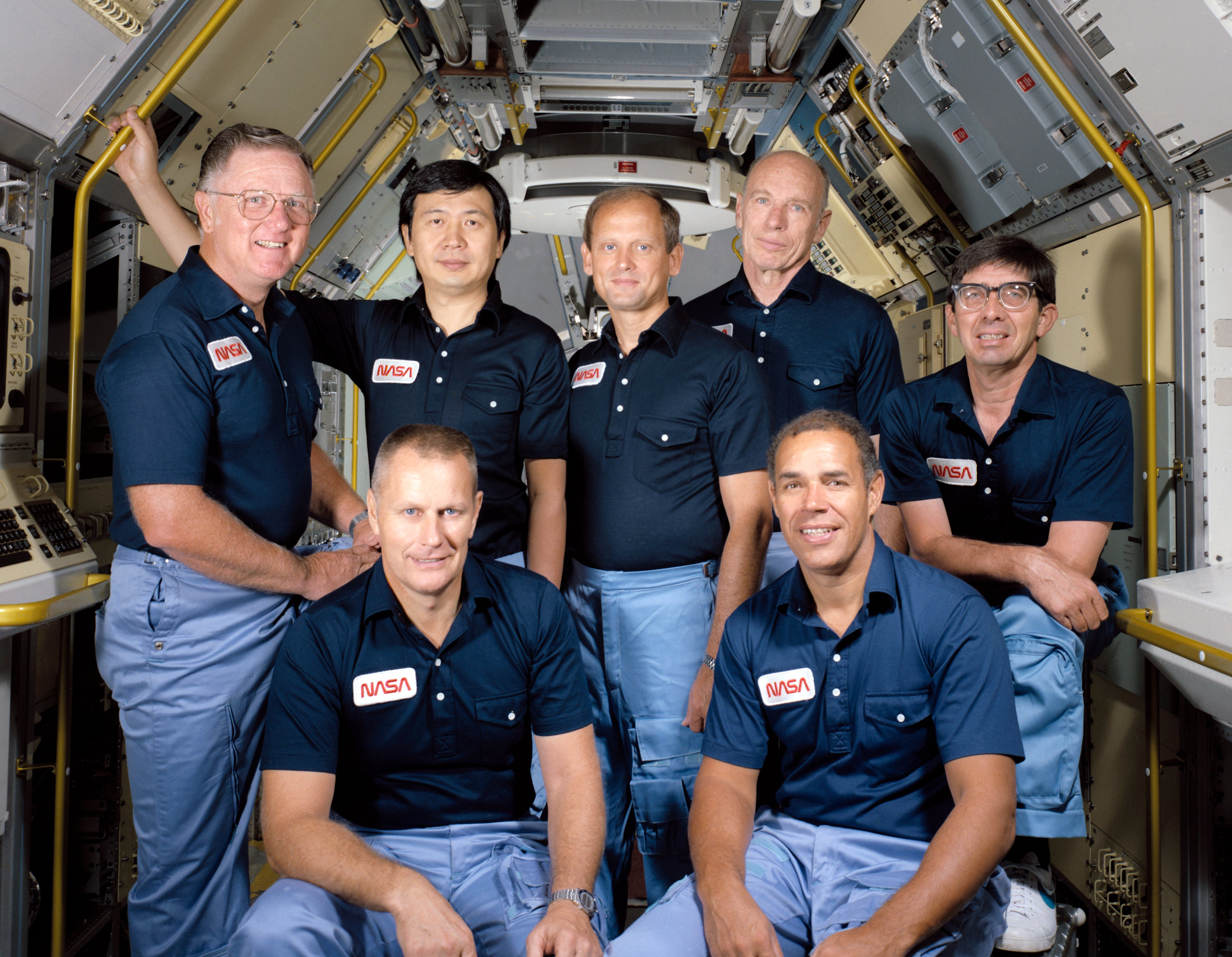 The crew assigned to the STS-51B mission included (seated left to right) Robert F. Overmyer, commander; and Frederick D. Gregory, pilot. Standing, left to right, are Don L. Lind, mission specialist; Taylor G. Wang, payload specialist; Norman E. Thagard, mission specialist; William E. Thornton, mission specialist; and Lodewijk van den Berg, payload specialist. Launched aboard the Space Shuttle Challenger on April 29, 1985 at 12:02:18 pm (EDT), the STS-51B mission's primary payload was the Spacelab-3.